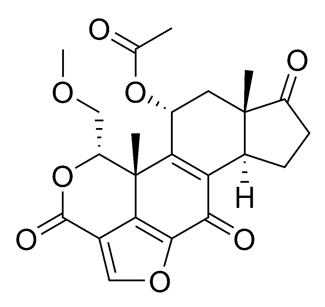 Chemical structure of wortmannin